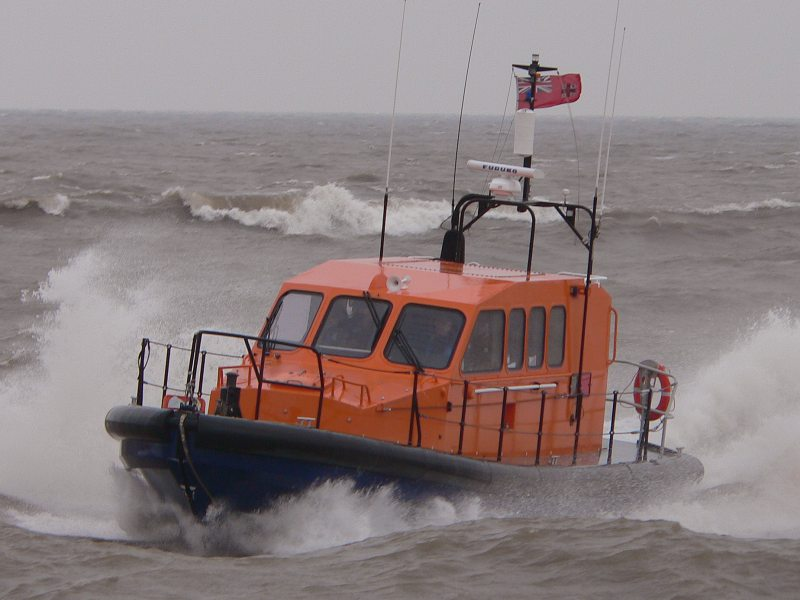 Lifeboat Prototype: experimental Fast Carriage Lifeboat 2 on Trials off Lowestoft, Suffolk